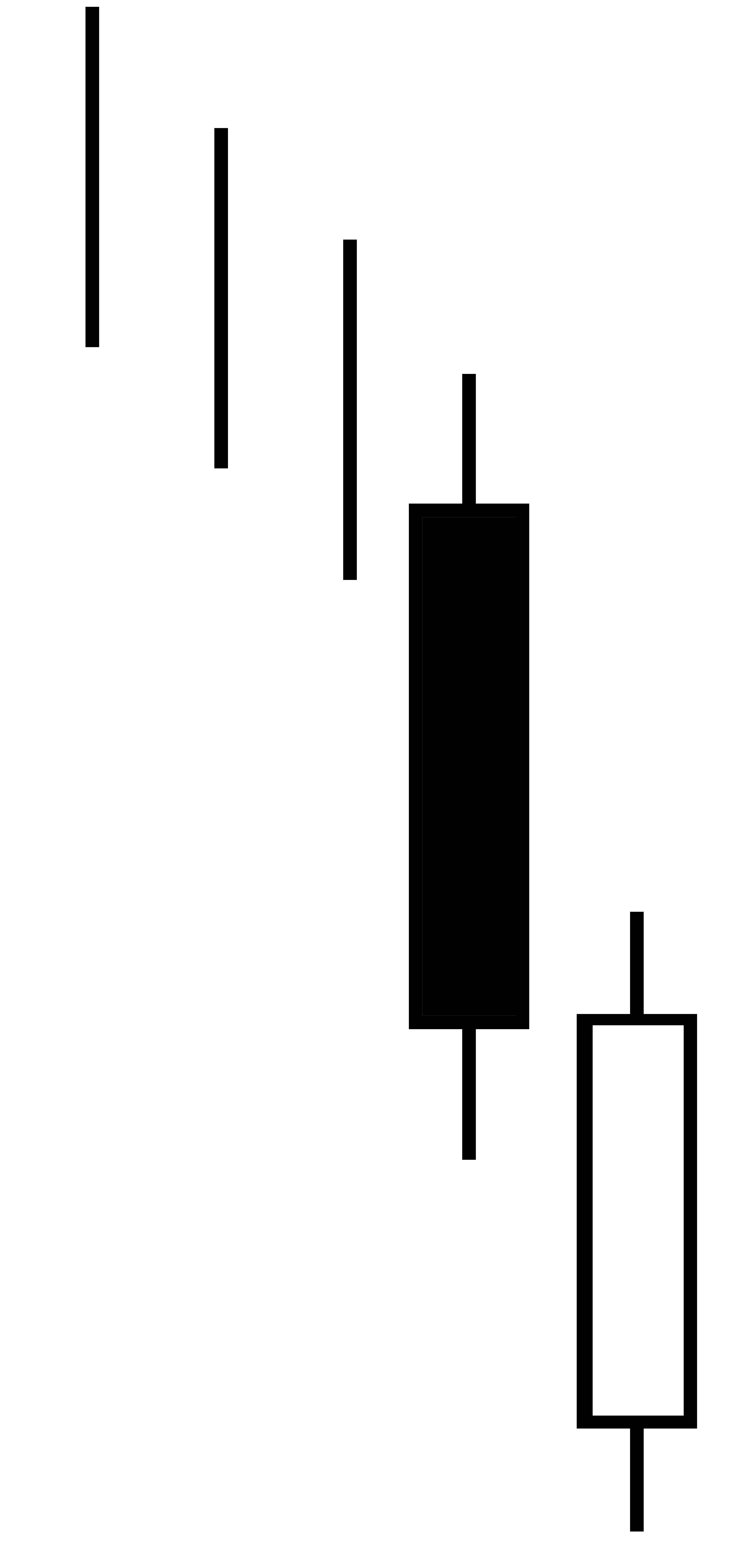 Bullish meeting lines